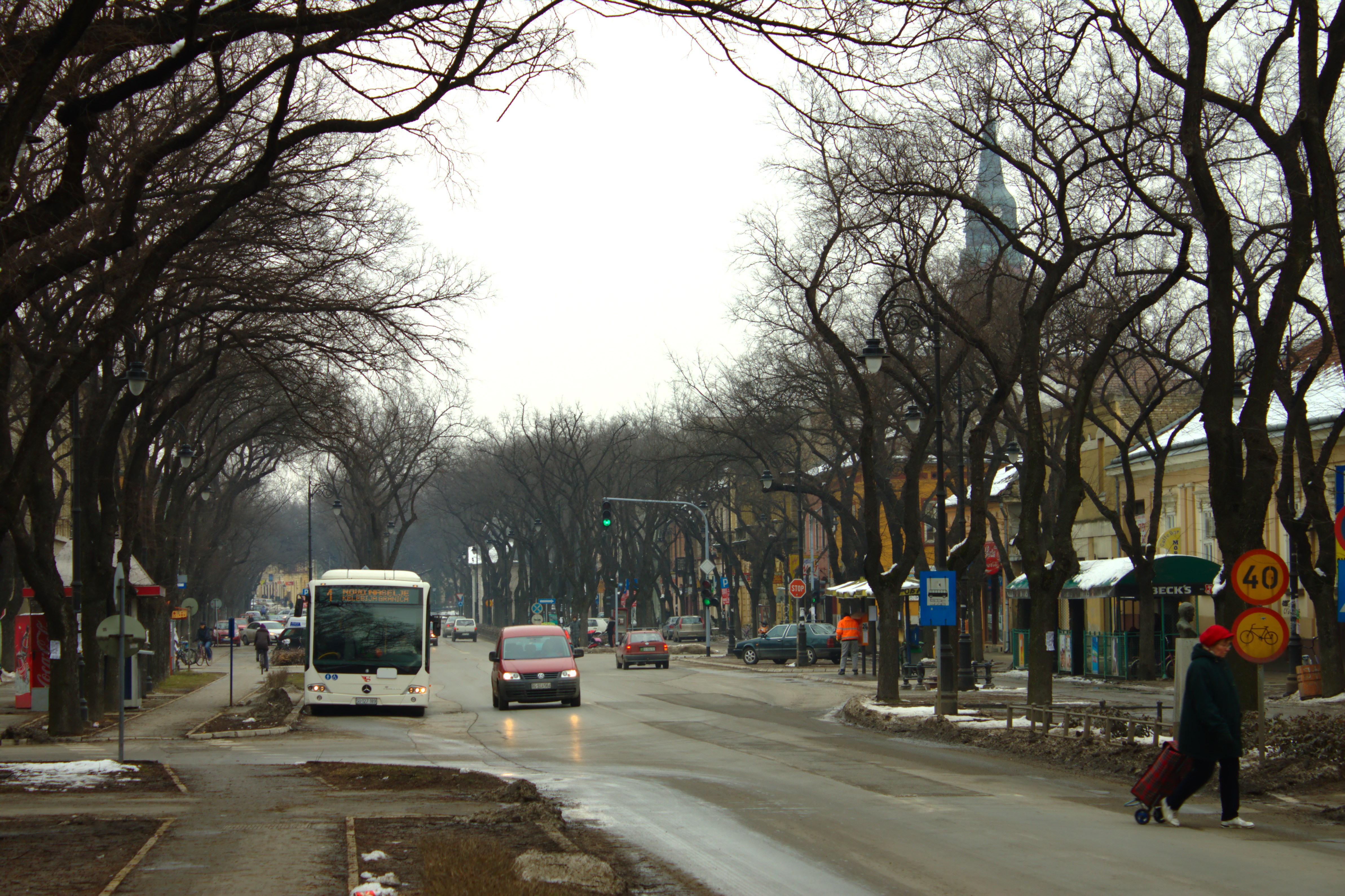 Mercedes Connecto bus at Somborski Put Street; one of the main arteries of the city of Subotica. On the left side the Trg Žrtava Fašisma (Fascims victim's square) is located. Subotica, Vojvodina, Serbia